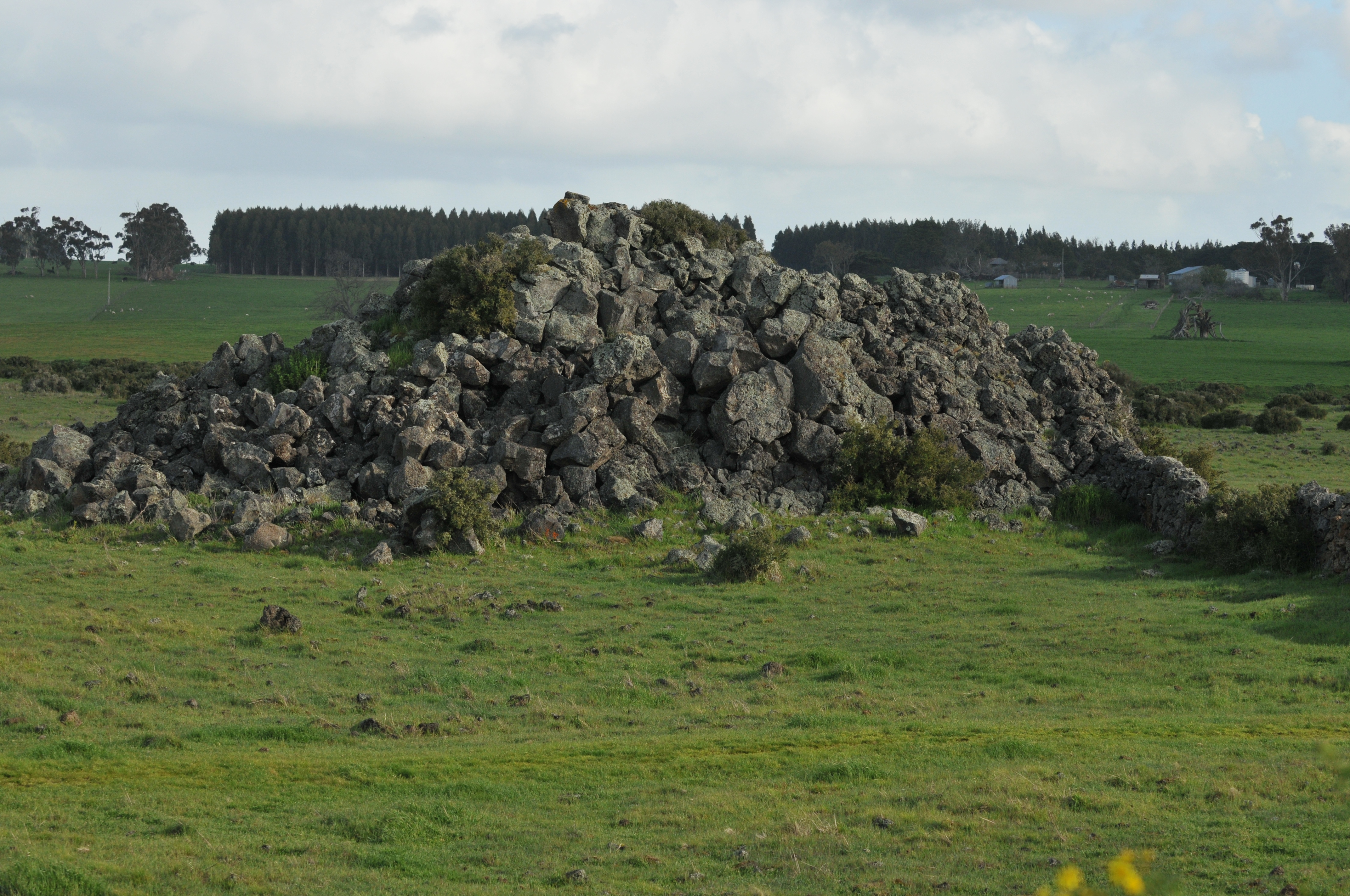 A volcanic blister (tumulus) just off Old Crusher Road, about 700m east of the intersection with Wallacedale Byaduk Road, near Byaduk, Victoria, Australia.